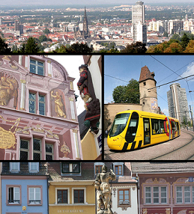 Mulhouse from Rebberg